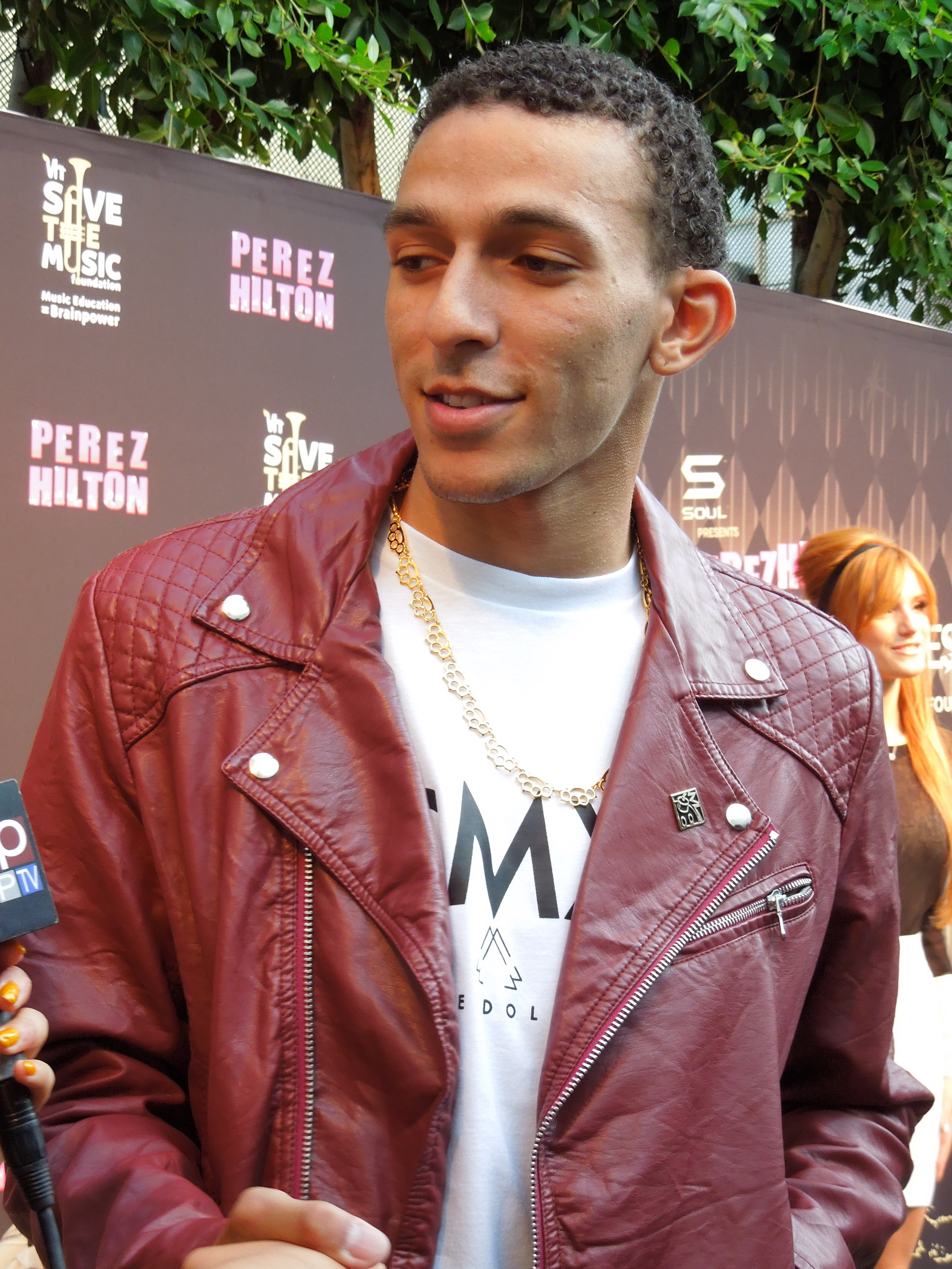 Khleo Thomas, best known for his role in the movie Holes, at the Perez Hilton's One Night In... L.A. (September 2012).